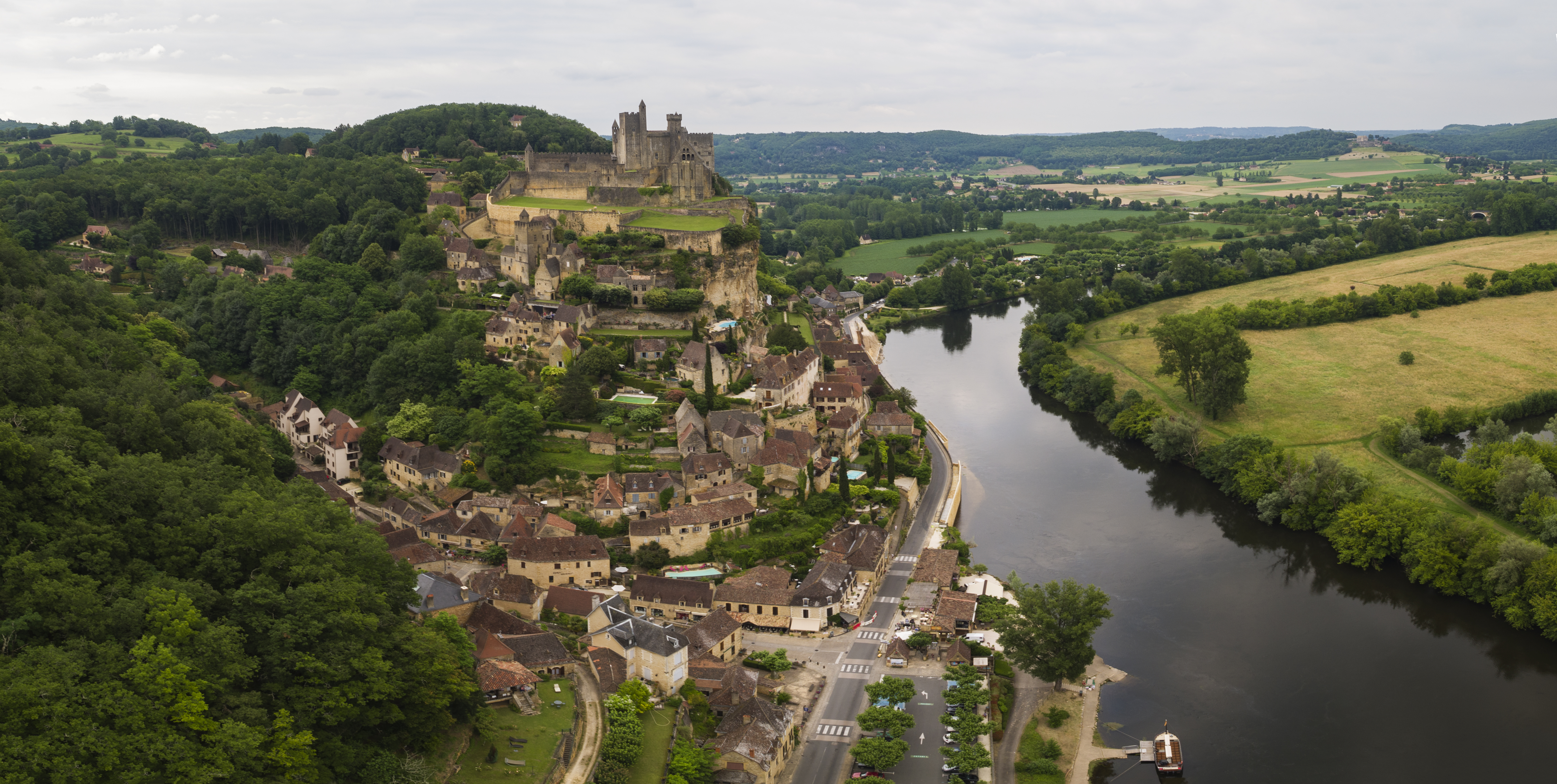 Aerial panorama of Beynac-et-Cazenac